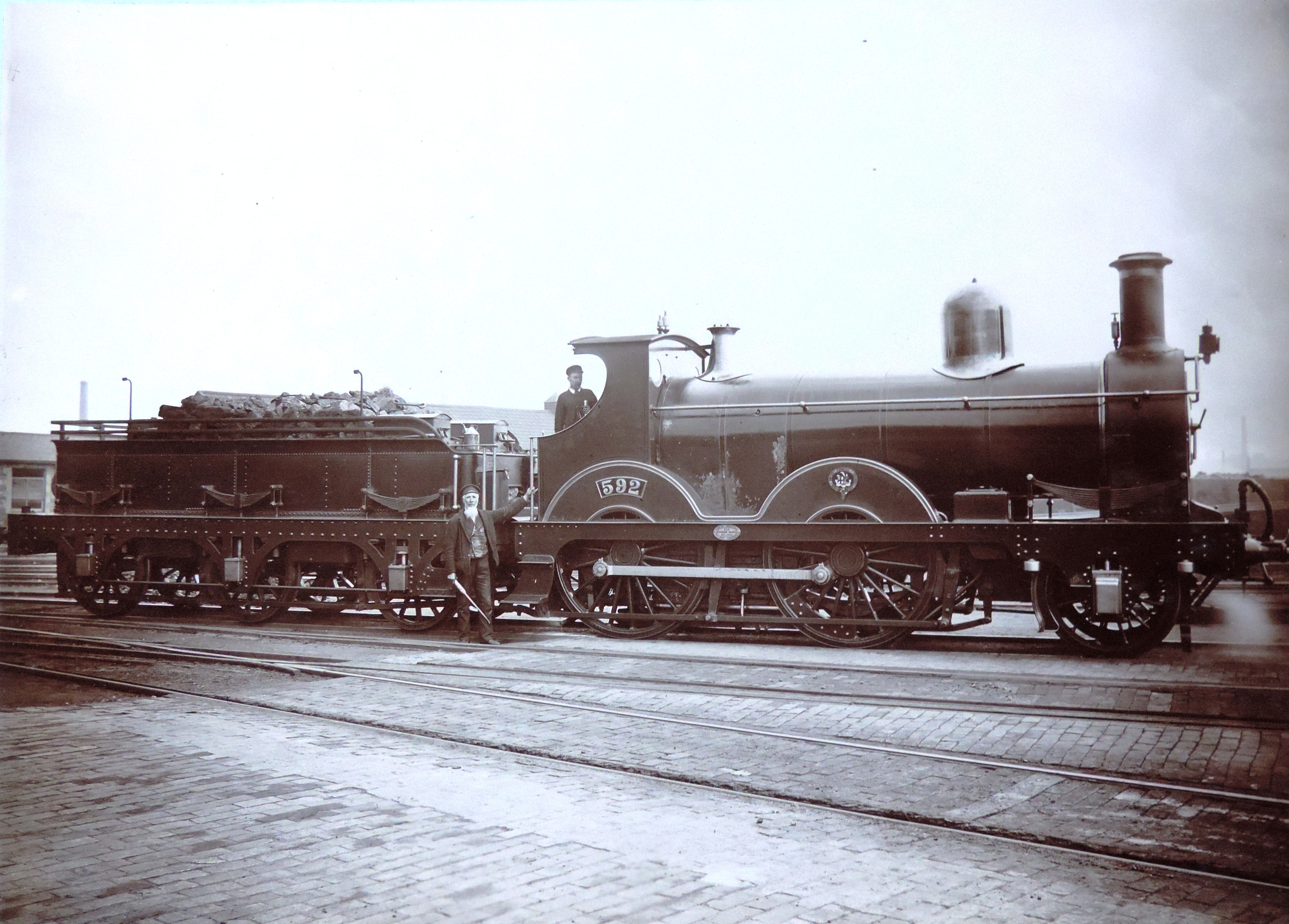 Great Western Railway 592, GWR 481-class 2-4-0. Built at the railway’s Swindon Works in 1869; renewed 1887-1890; withdrawn 1904–1921.